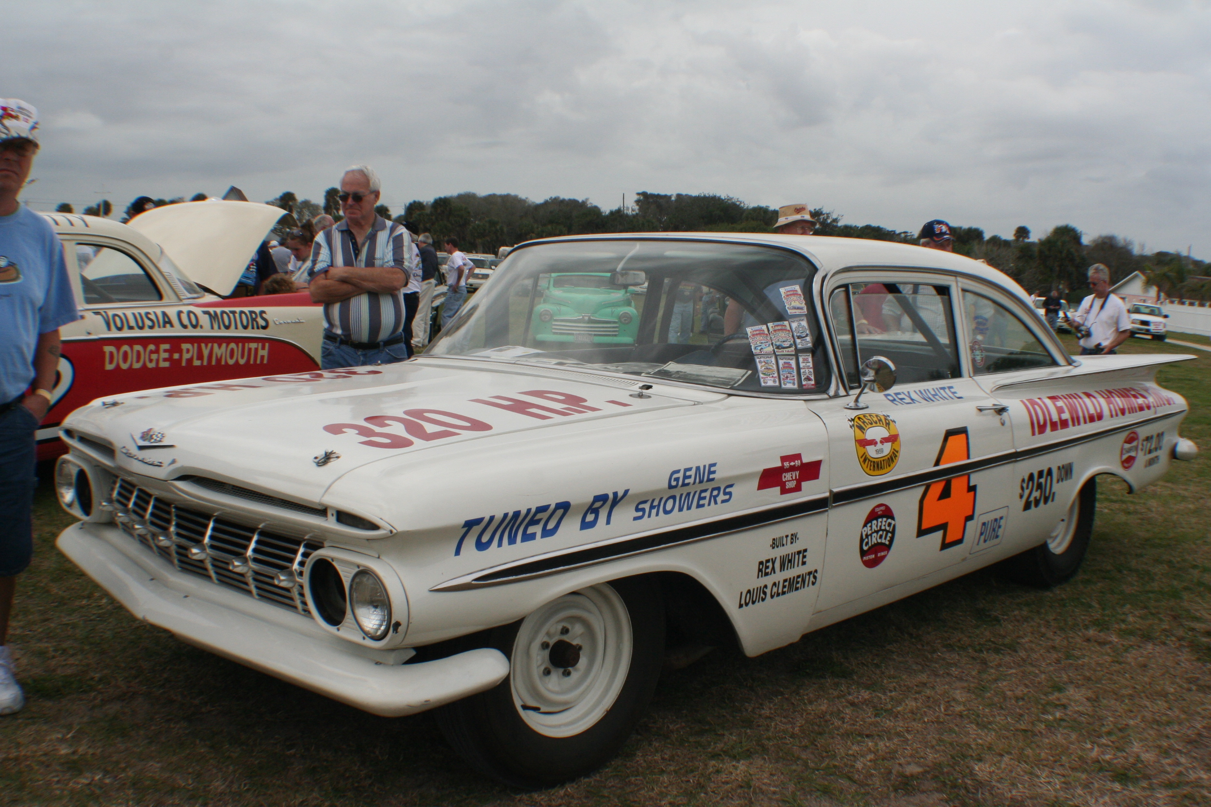 NASCAR driver Rex White racecar Circa 1962. Shot by "The Daredevil" at Daytona during Speedweeks 2008. The car is a 1959 Chevrolet.